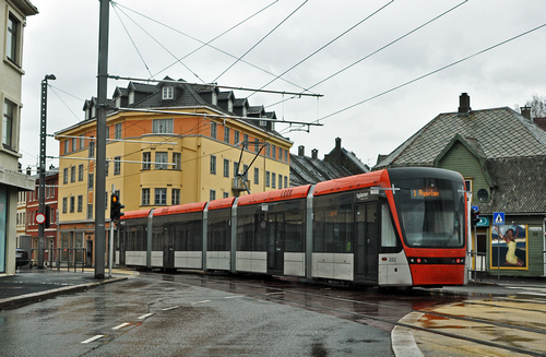 The new city rail that will start running here in June was out for a test ride apparently!